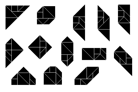 The 13 convex shapes matched with Tangram set